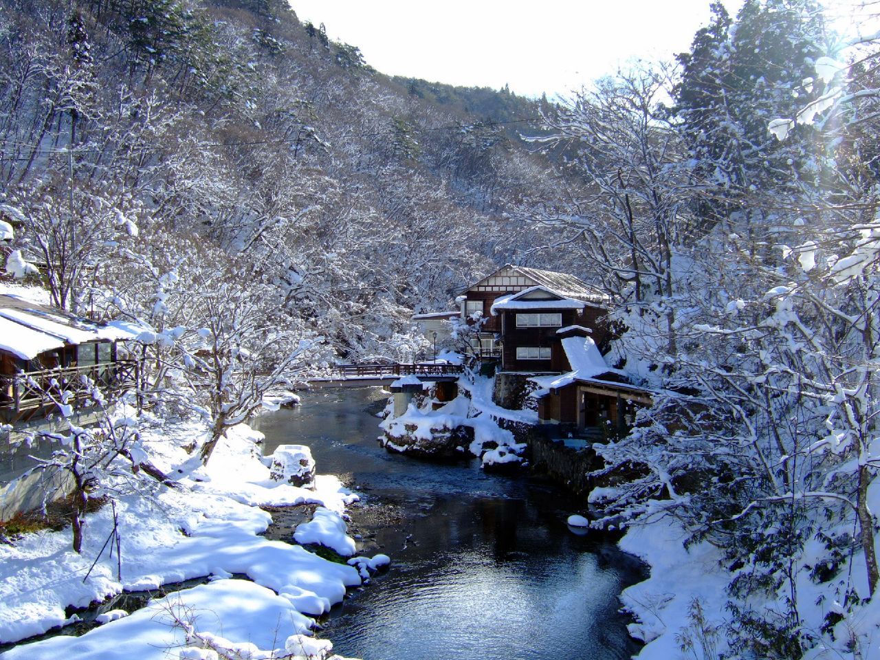 Ōsawa Onsen, one of the hot springs in Hanamaki, Iwate, Japan.